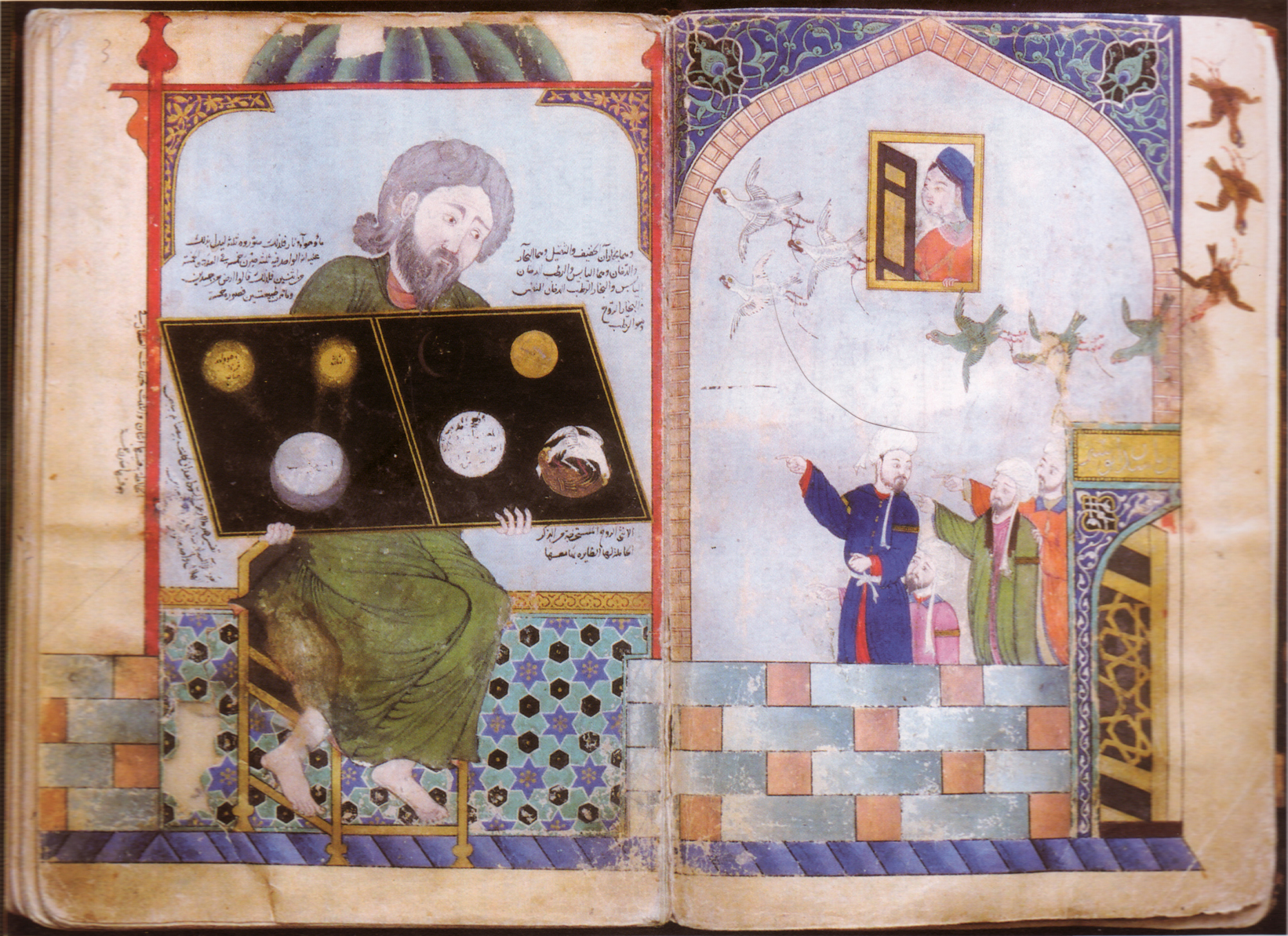 Illustration from a transcript of Muhammed ibn Umail al-Tamimi’s book Al-mâ' al-waraqî (The Silvery Water), also called Senioris Zadith tabula chymica. In which Ibn Umail describes a statue of a sage holding the tablet of ancient alchemical knowledge. He writes that it stands in an Egyptian temple painted with murals of people pointing and eagles carrying bows. And that the temple is Sidr wa-Abu Sîr, the Prison of Yasuf, where Joseph learned how to interpret the dreams of the Pharoah (Koran: 12 Yusuf and Genesis: 41]. Many of the notes written around the tablet, called the Letter from the Sun to the Moon, are mathematical relationships between the hieroglyphs. But some of the notes are comments by the scribe: that the sun is the spirit (al-ruh) and the moon is the soul (al-nafs); and of the interlocking birds that the female is the spirit extracted from the male.